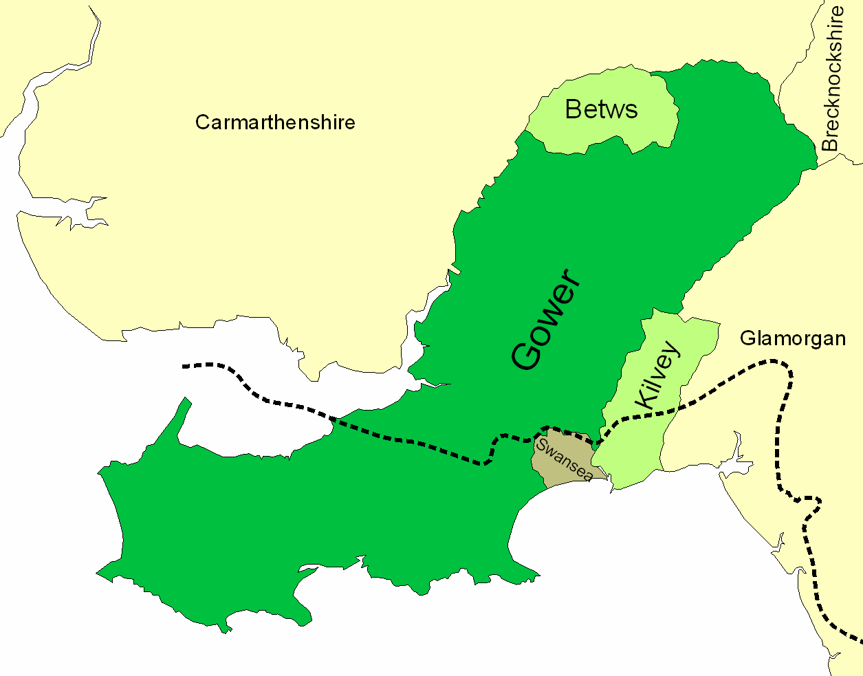 Map showing Gower (strictu sensu): a part detached (Betws): a part added (Kilvey Lordship): the Town and Franchise of Swansea: a line representing the linguistic boundary.